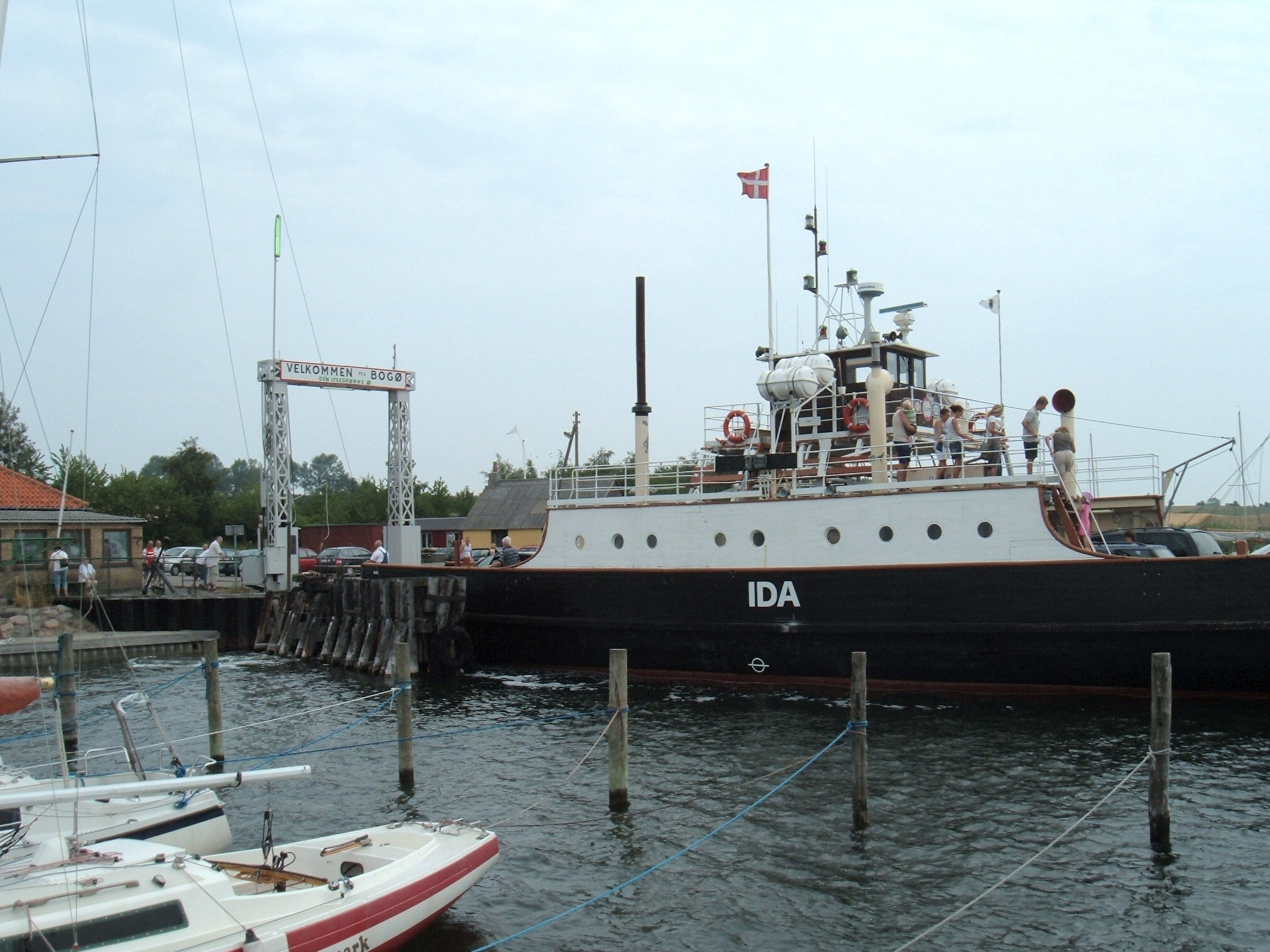 Ferry to the island of Falster from the island of Bogø in south eastern Denmark. Taken by contributor, July 2006.